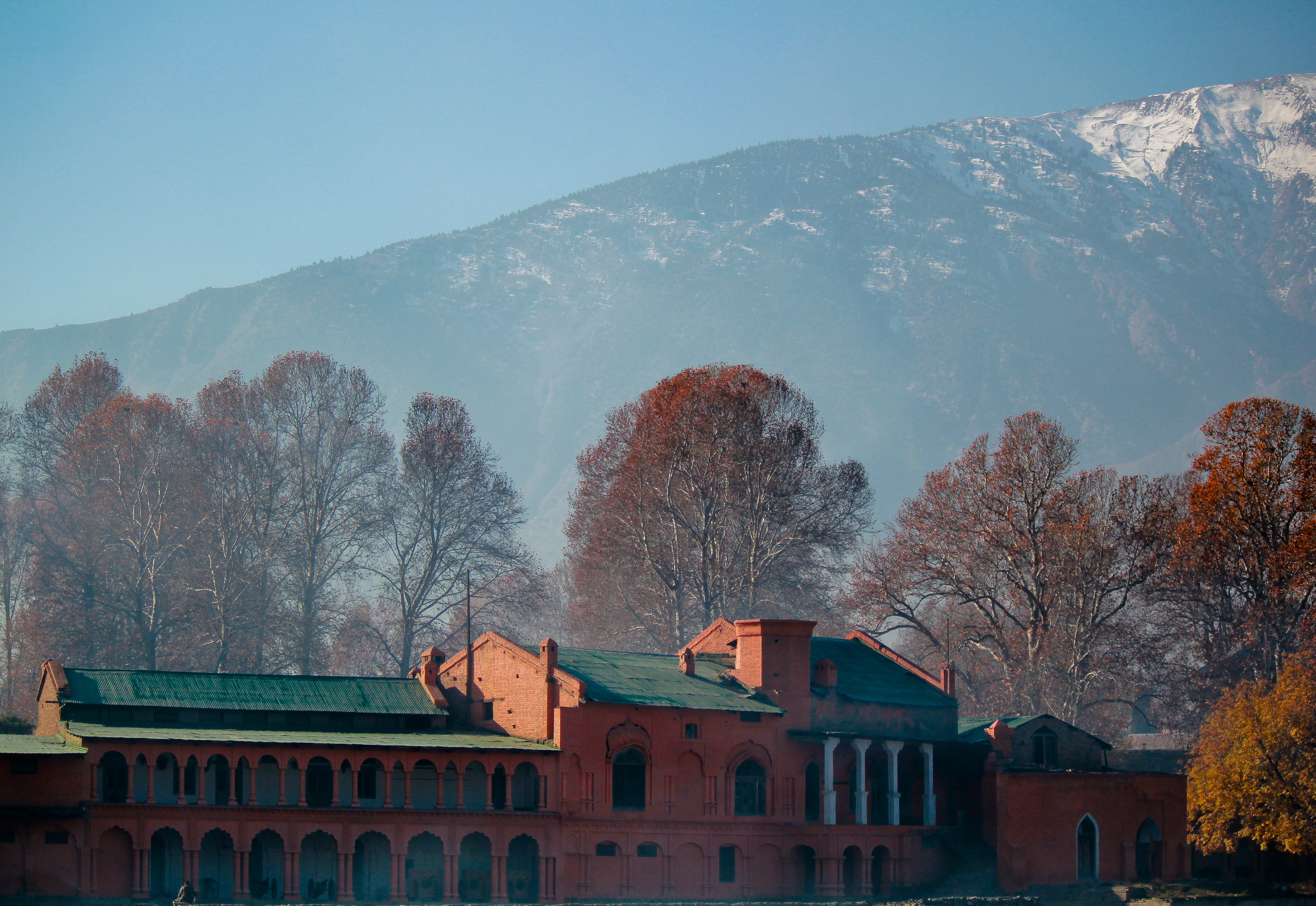 Autumn leaving its mark on the Chitral valley